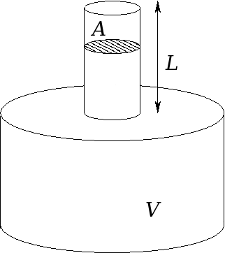 Schematics of a cavity Helmholtz resonator